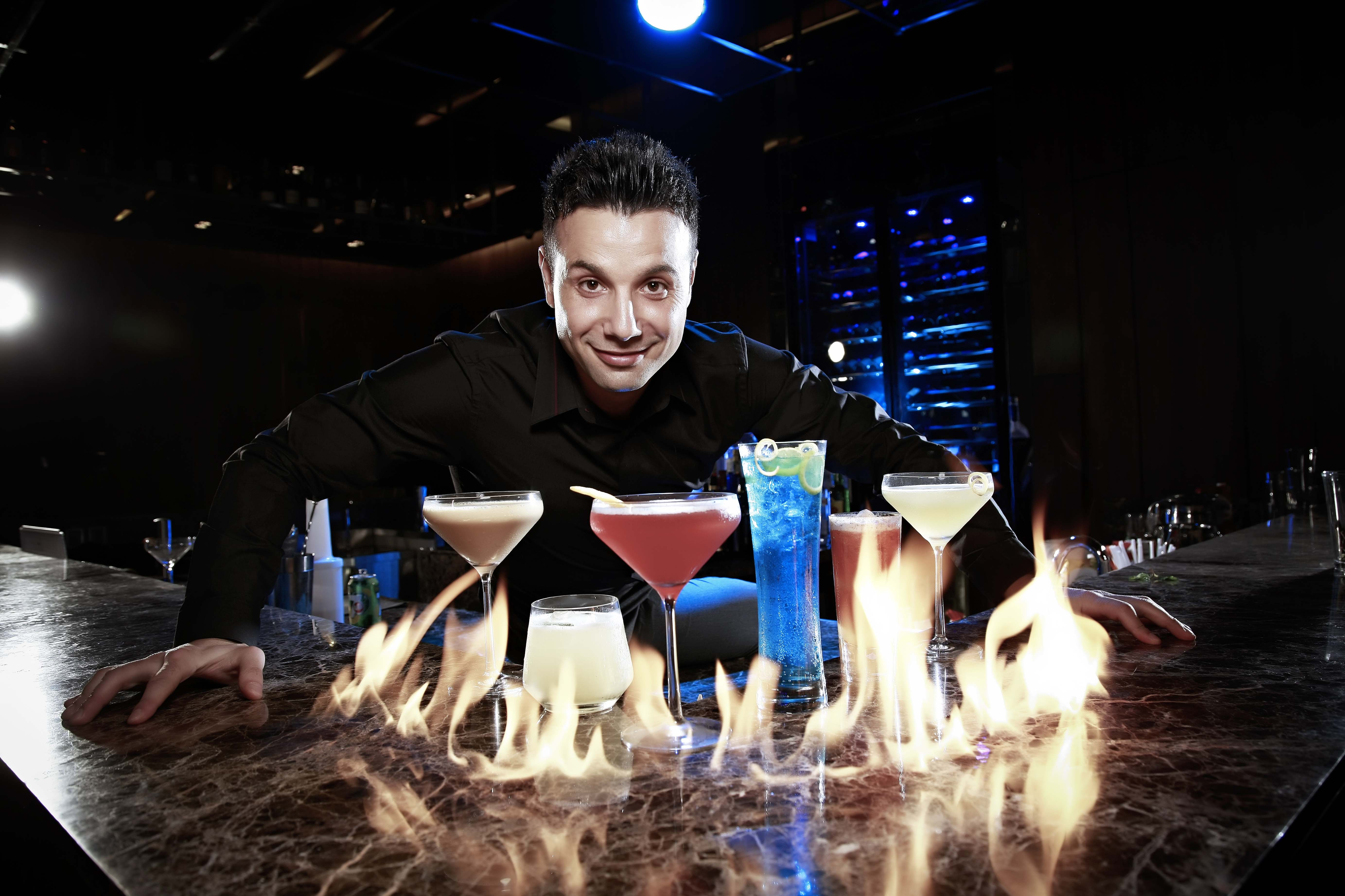 Atilla iskifoglu ates kokteylleri